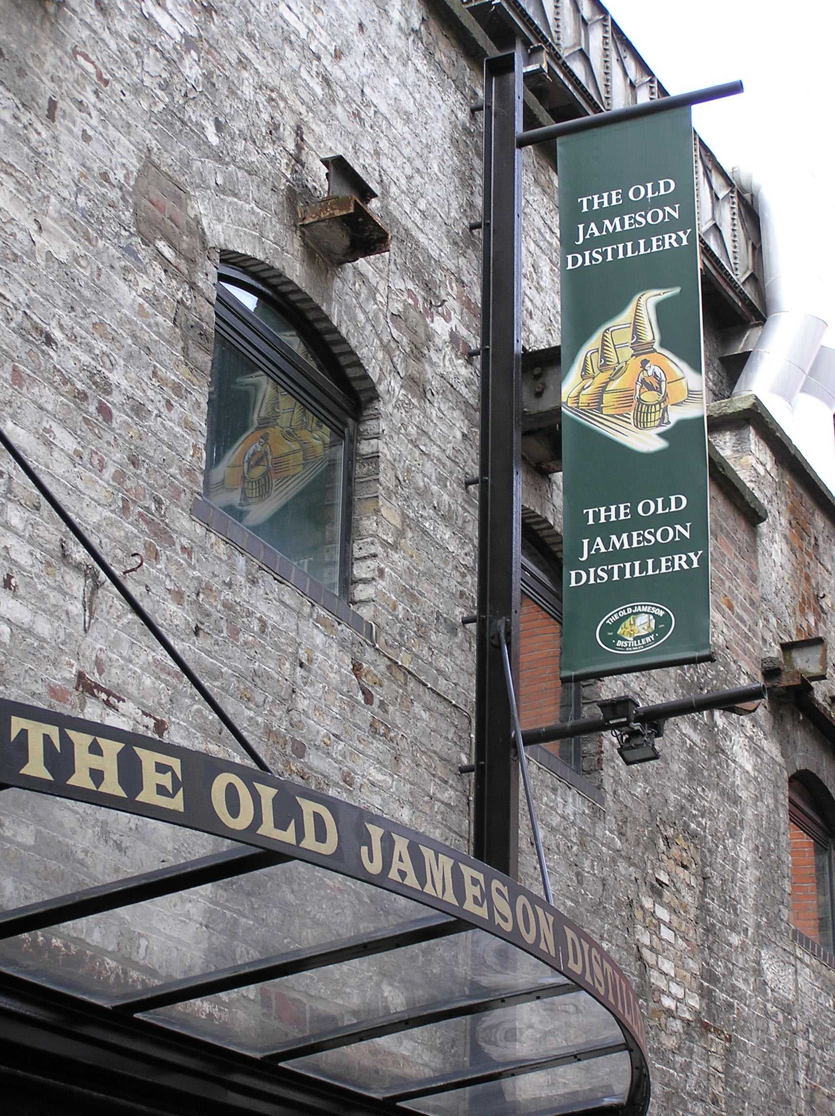 The Jameson whiskey distillery at Dublin